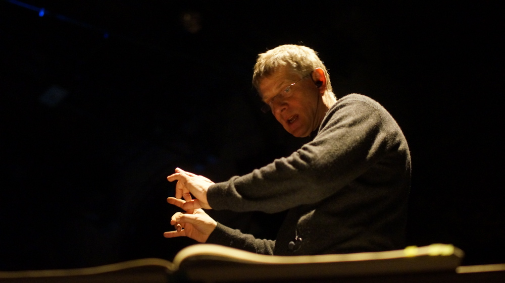 Gerhardt Müller-Goldboom